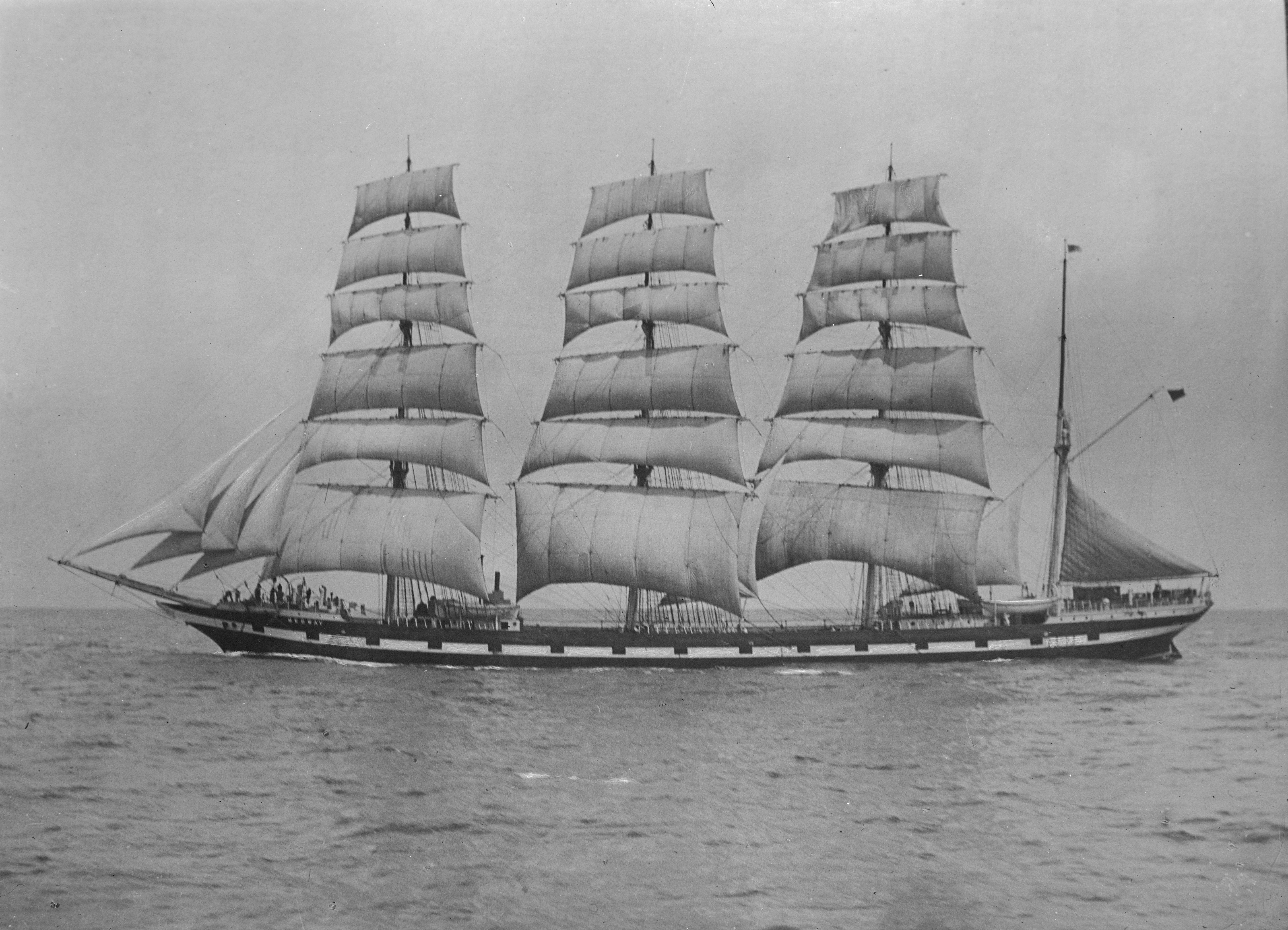 The barque Medway under full sails.